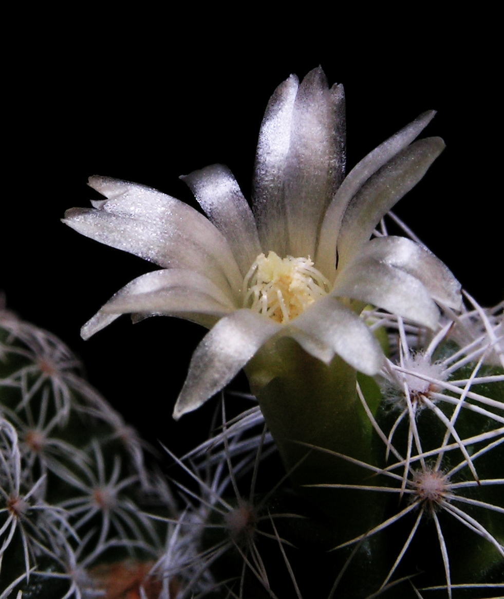 The flower of Mammillaria vetula ssp. gracilis